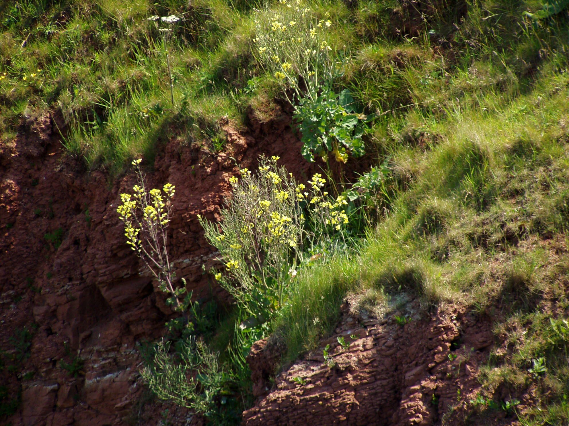 Brassica oleracea, wildtype from Heligoland